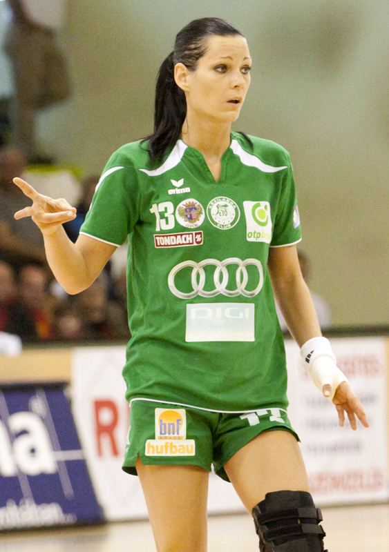 Anita Görbicz, captain of the Hungarian handball club Győri Audi ETO KC commanding against DVSC-Korvex during the Hungarian championship final.